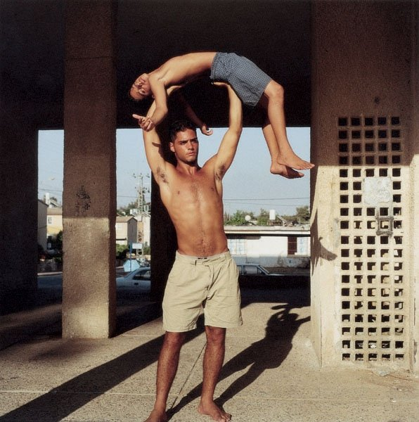 Photograph